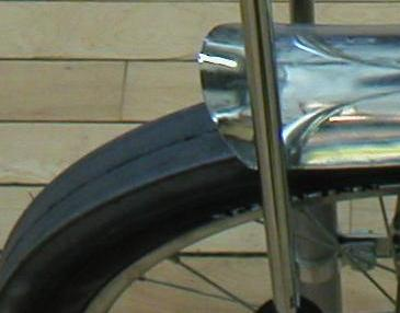 Part of a slick bicycle tire show flattened profile